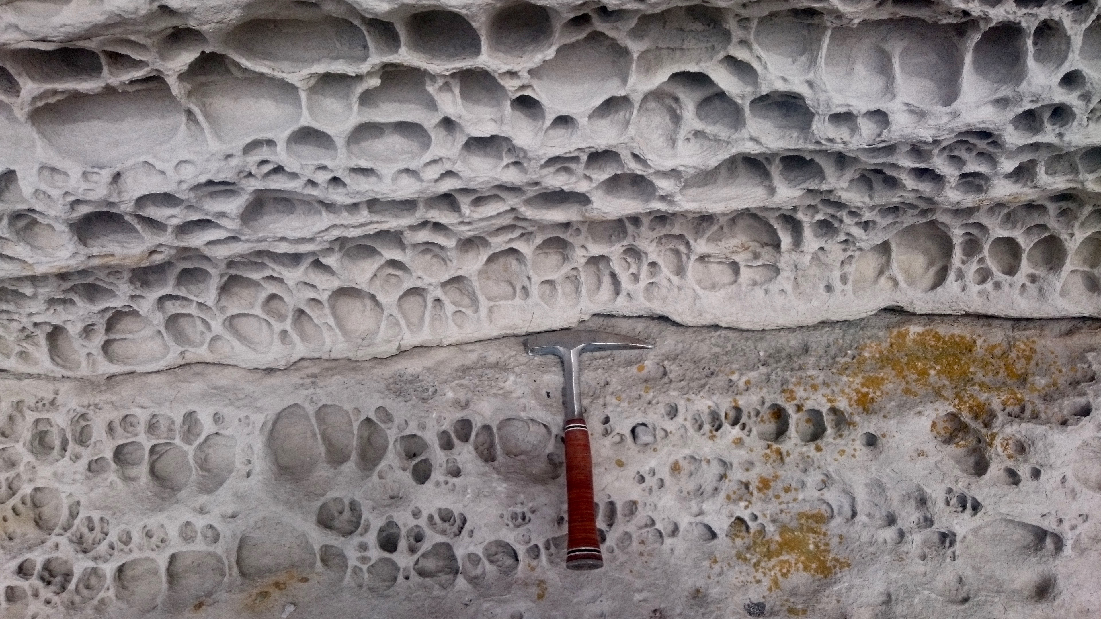 Cliff overhang of orthoquartzite composition showing excellent honeycomb weathering.